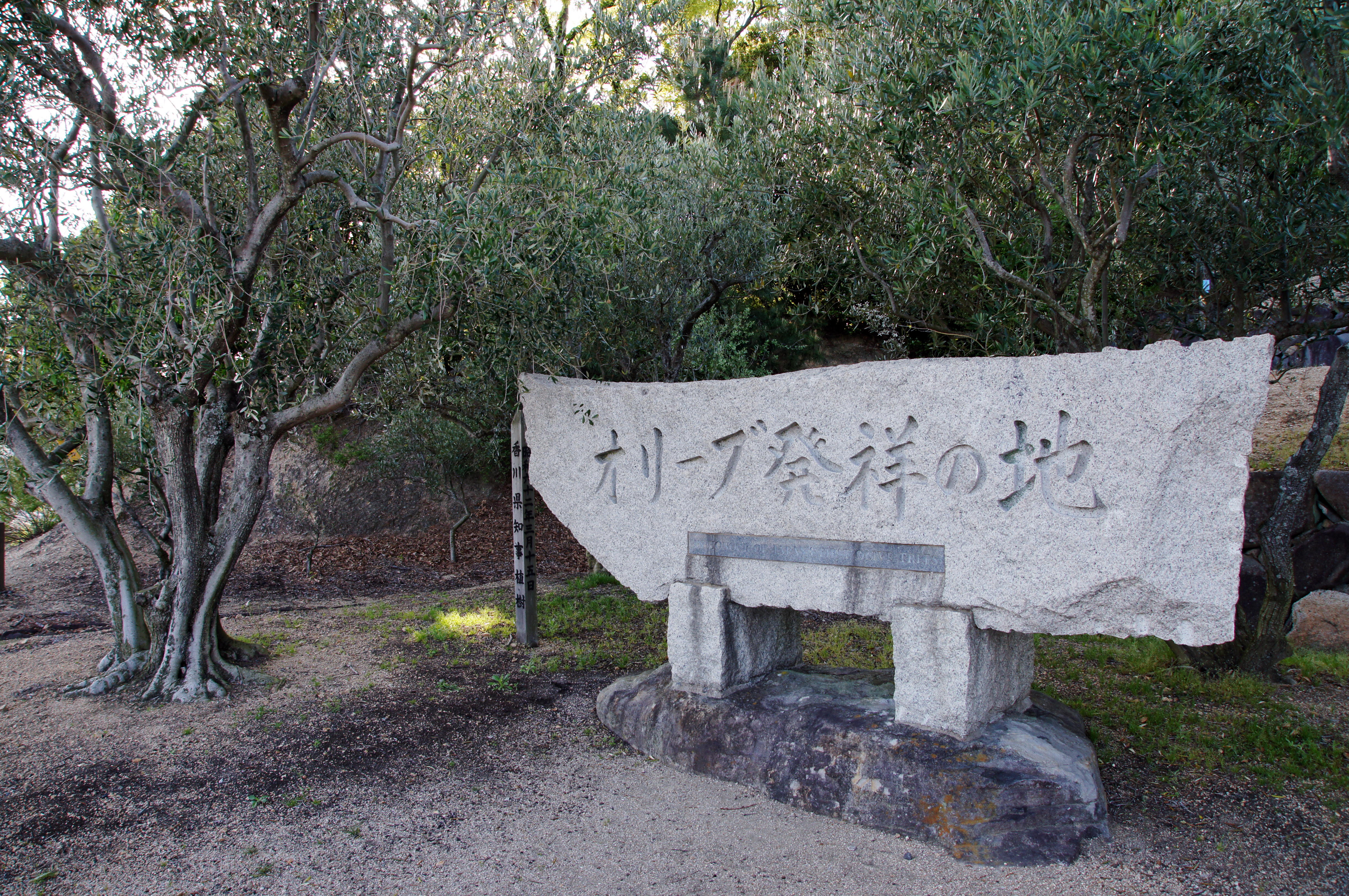 Shodoshima Olive Park of Shōdo Island, Shodoshima, Kagawa prefecture, Japan